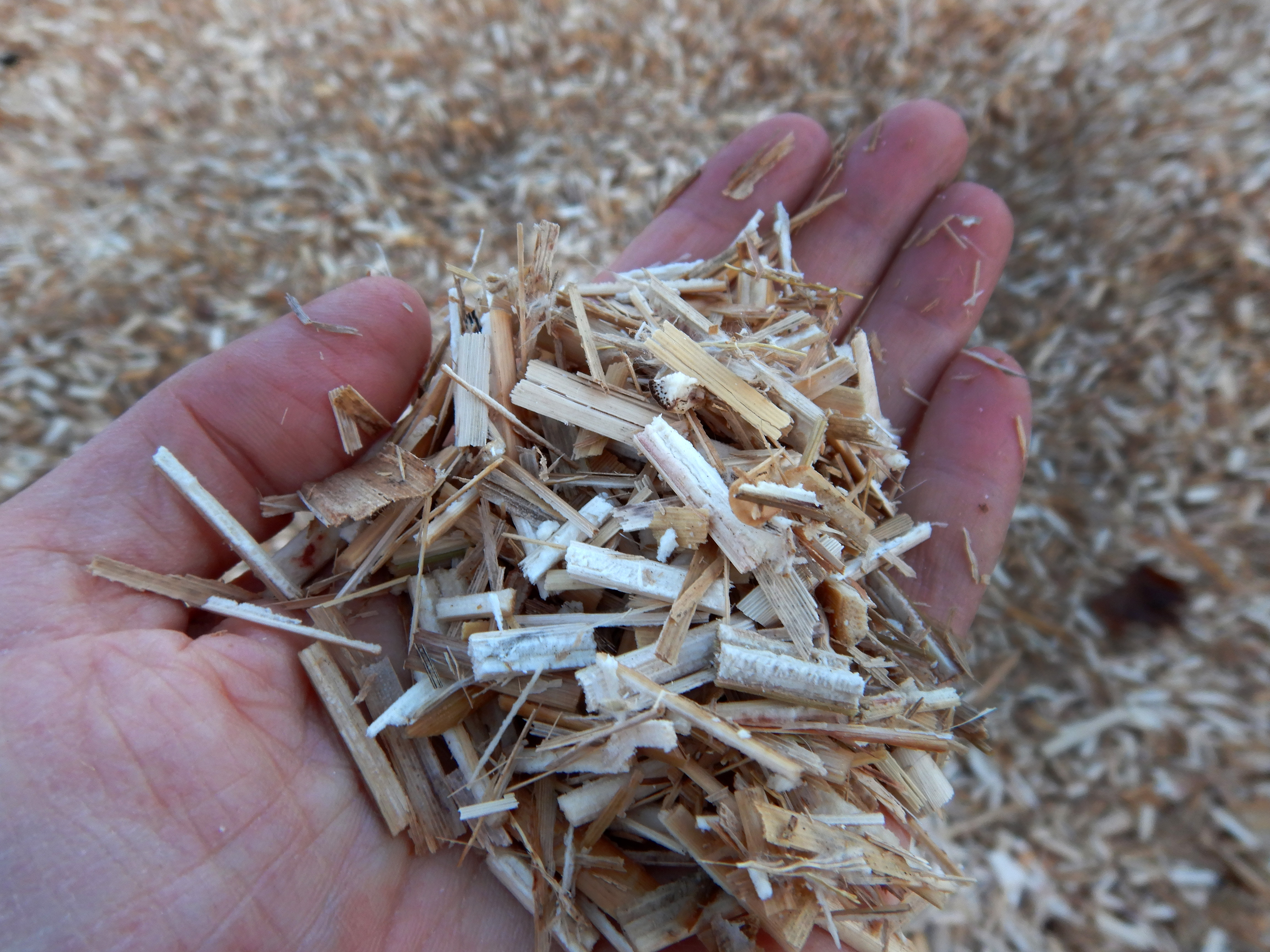 Miscanthus ground for use in mulch, in Lille (Northern France), 2018 Lamiot